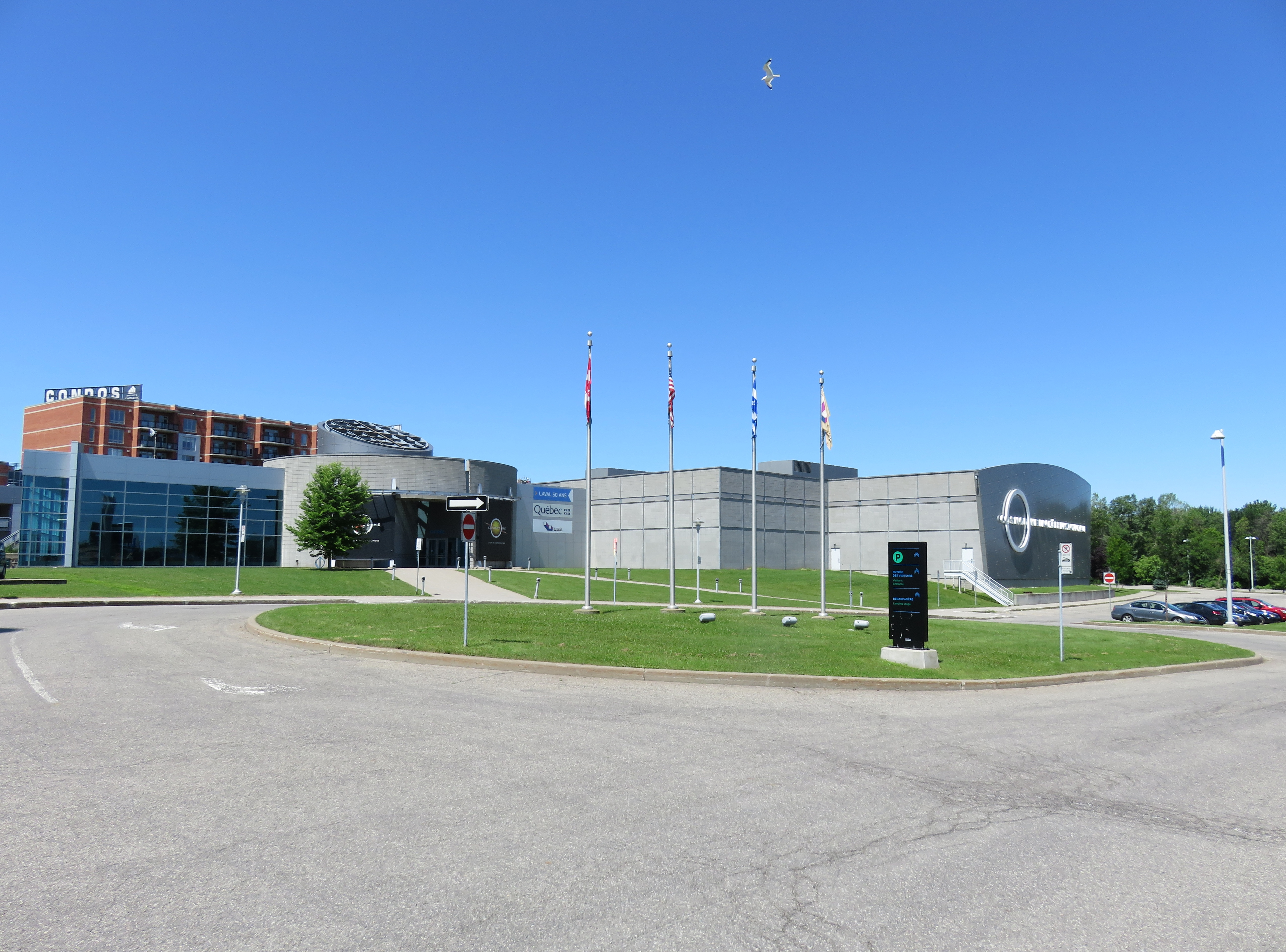 The Cosmodôme, city of astronautics, is a scientific museum presenting expositions on space and space exploration, and offering educational activities, for one with a space camp.